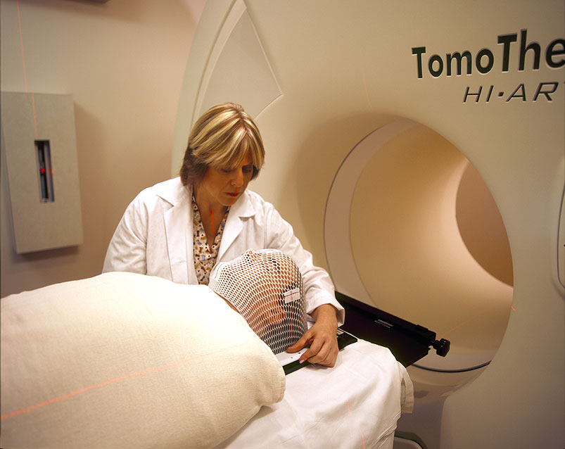 Title: Treatment: Radiation Description: A radiation therapist prepares a patient for radiation treatment using the "TomoTherapy" machine. Tomotherapy is often used for patients with limited metastatic cancer. It delivers high-dose radiation yet reduces radiation exposure to healthy surrounding tissue. Subjects (names): Topics/Categories: People -- Doctor/Patient Treatment -- Radiation Type: Color Source: National Cancer Institute (NCI) Author: Rhoda Baer (Photographer) Date Created: Unknown Date Added: 10/29/2007 Reuse Restrictions: None - This image is in the public domain and can be freely reused. Please credit the source and/or author listed above.